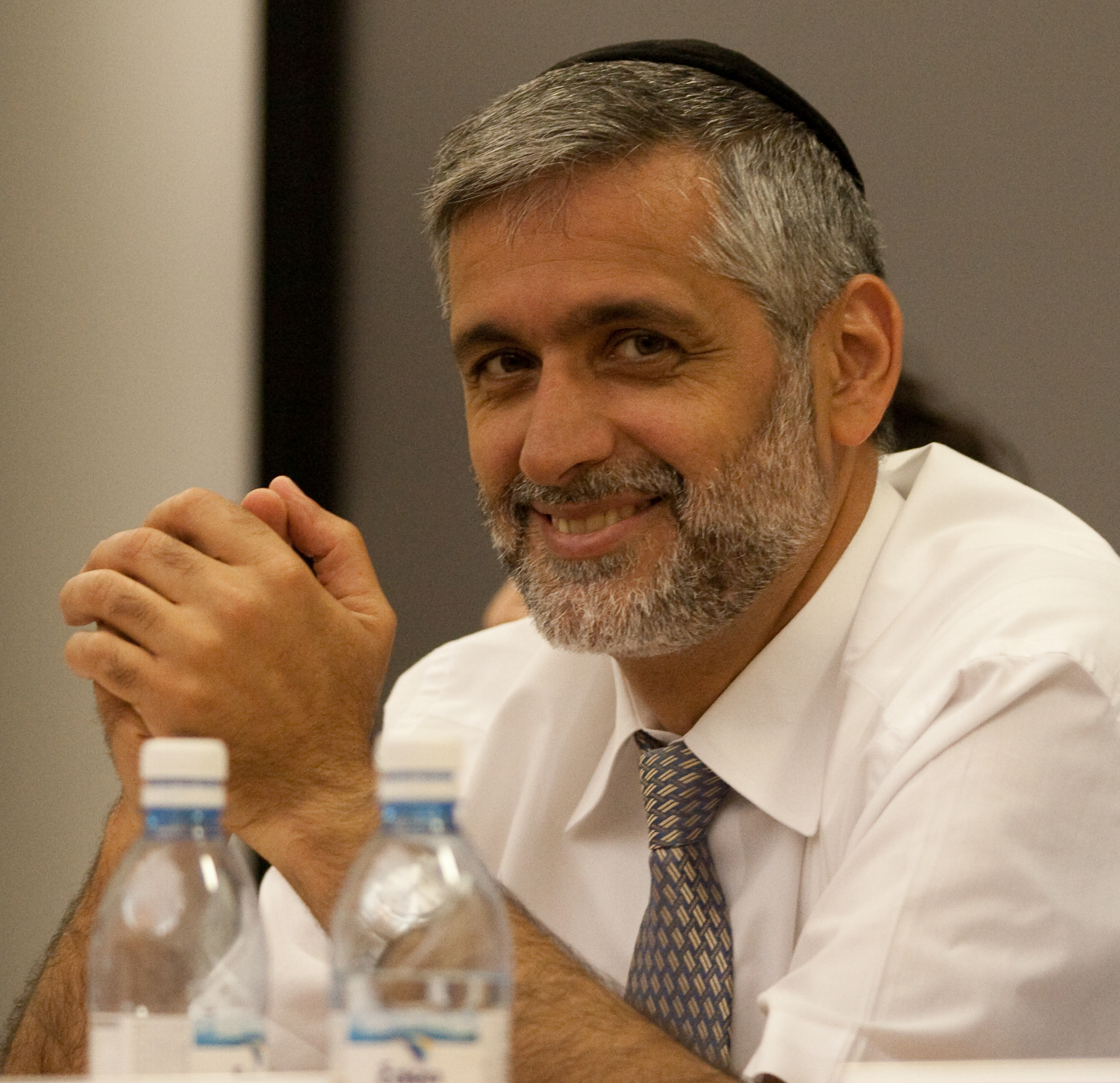 Eli Yishai at a conference at the IDC (Herzlia, Israel), discussing the Israeli government Biometrics database.